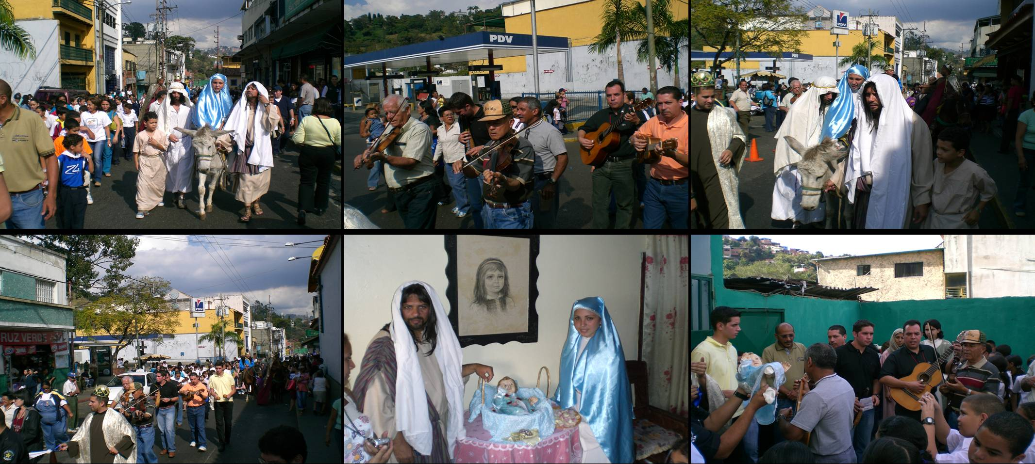 Different moments of Paradura del Niño, folklorical manifestation of Venezuela, celebrated on February 2.